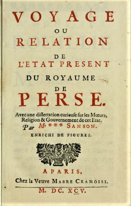 Nicolas Sanson (1600-1667) Voyage, ou relation de l'etat present du royaume de Perse. Avec une dissertation curieuse sur les moeurs, religion & gouvernement de cet etat. Enrichi de figures